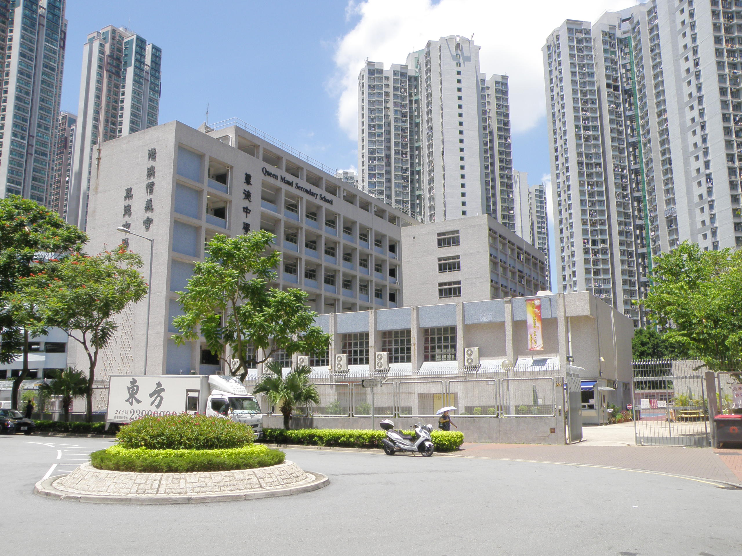 H.K.M.L.C. Queen Maud Secondary School in Hang Hau, Hong Kong.